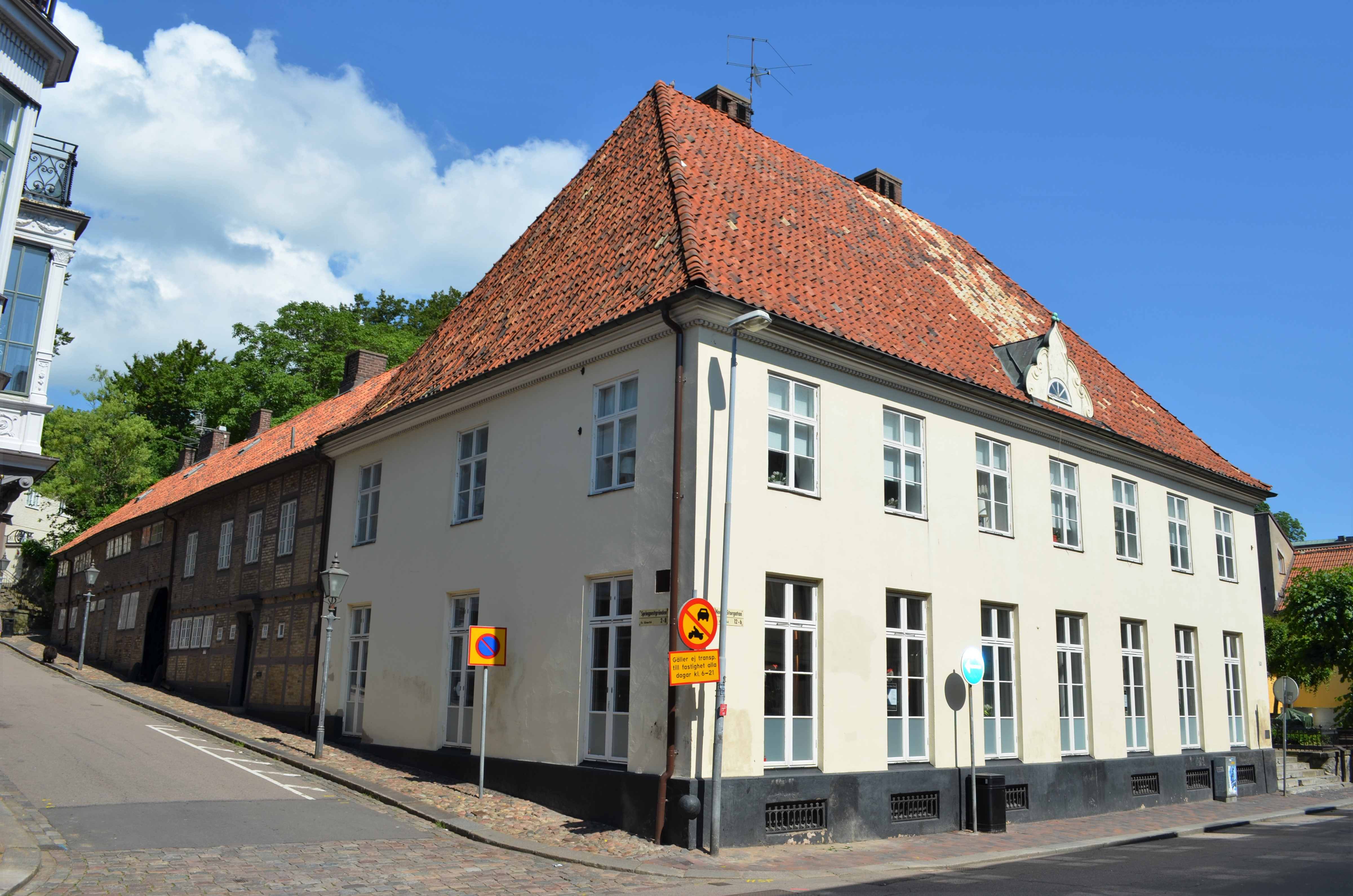 Henckelska gården in Helsingborg.